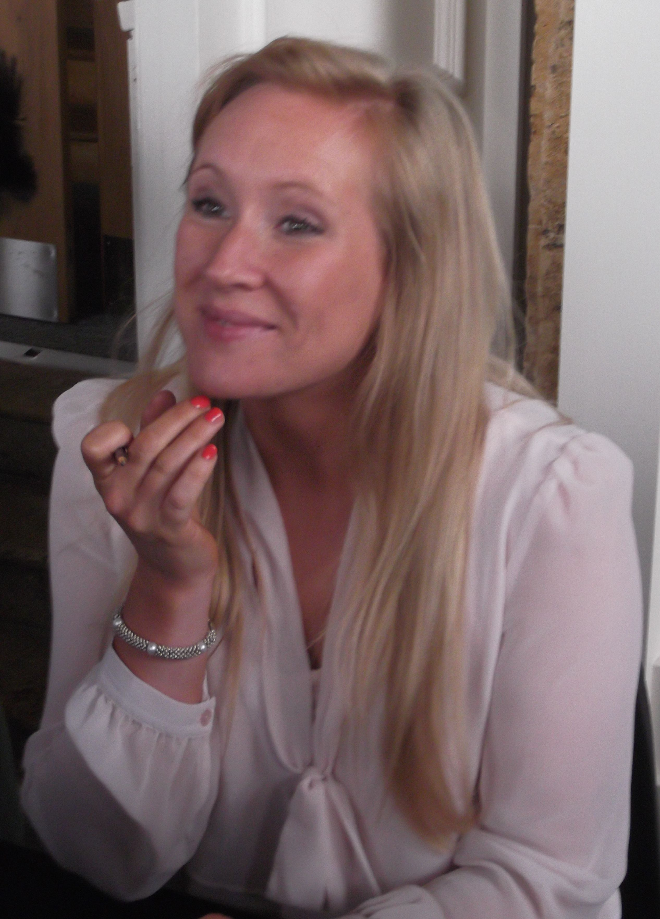 Martha Howe-Douglas at Abingdon County Hall Museum in Abingdon-on-Thames, Oxfordshire, England, on its reopening on 7 July 2012, signing Horrible Histories books.